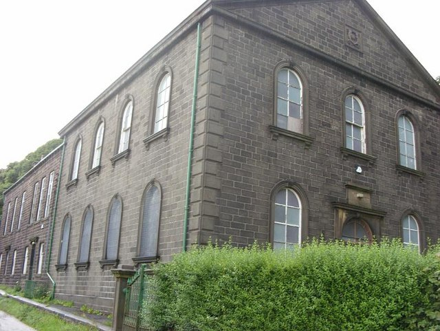 Former Baptist Chapel, Wainsgate Lane, Old Town, Pecket Well, West Yorkshire, England. No longer used for worship. Part of the building is still in use for community purposes.